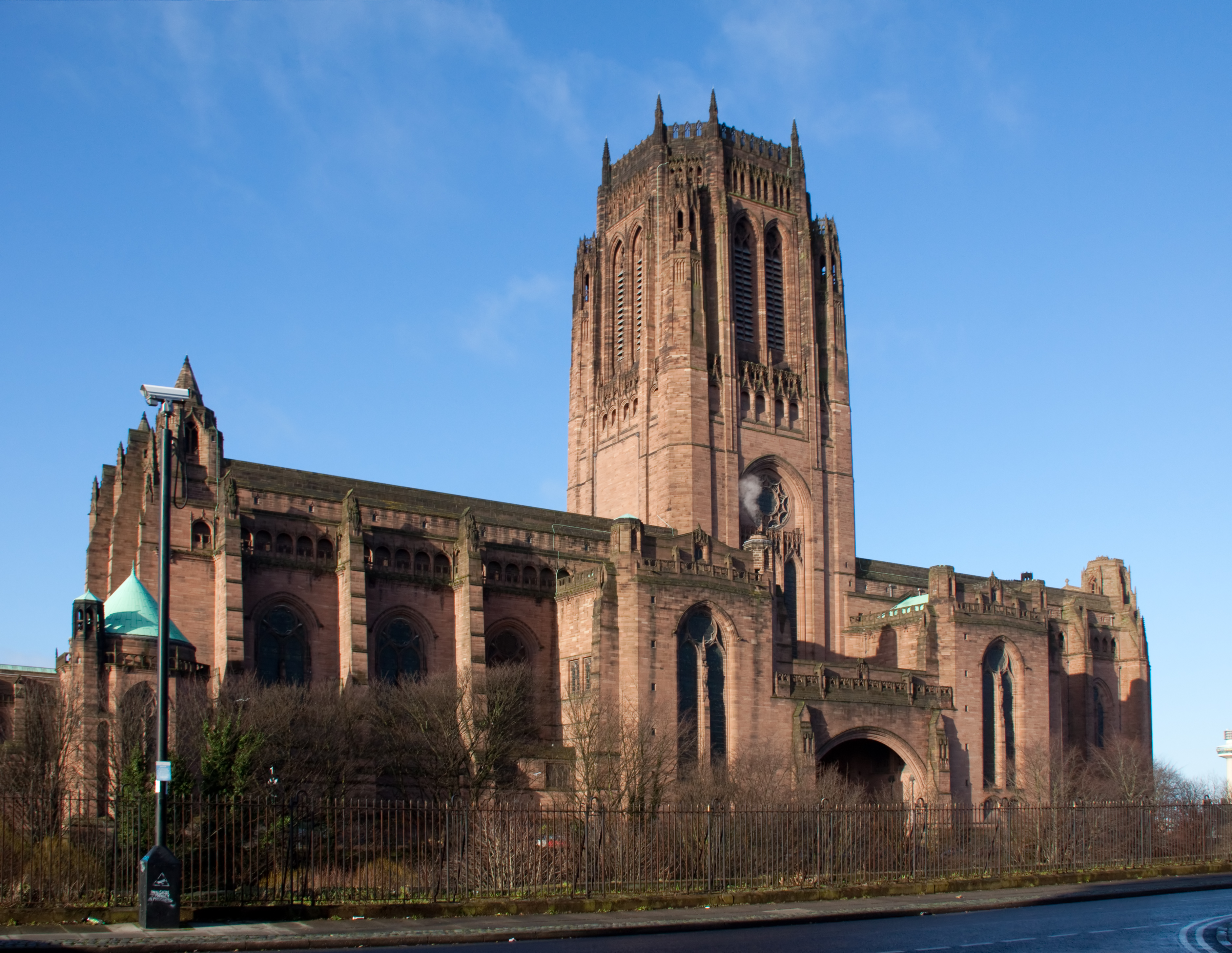 Anglican Cathedral Liverpool 2